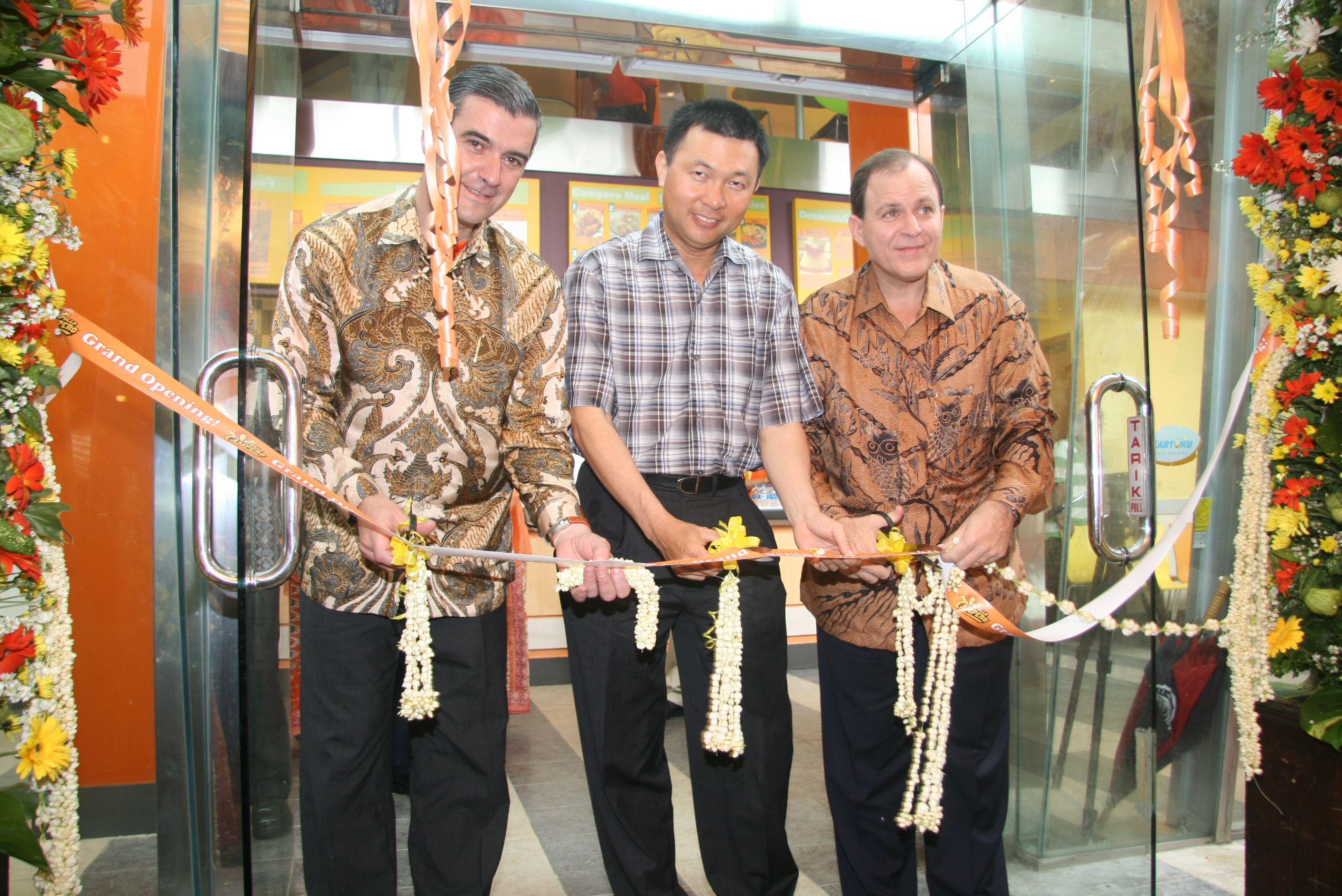 February 1, 2007 - The inauguration of the Pollo Campero restaurant in the Sarinah Building, Yakarta, Indonesia, the chain's first Asian venture